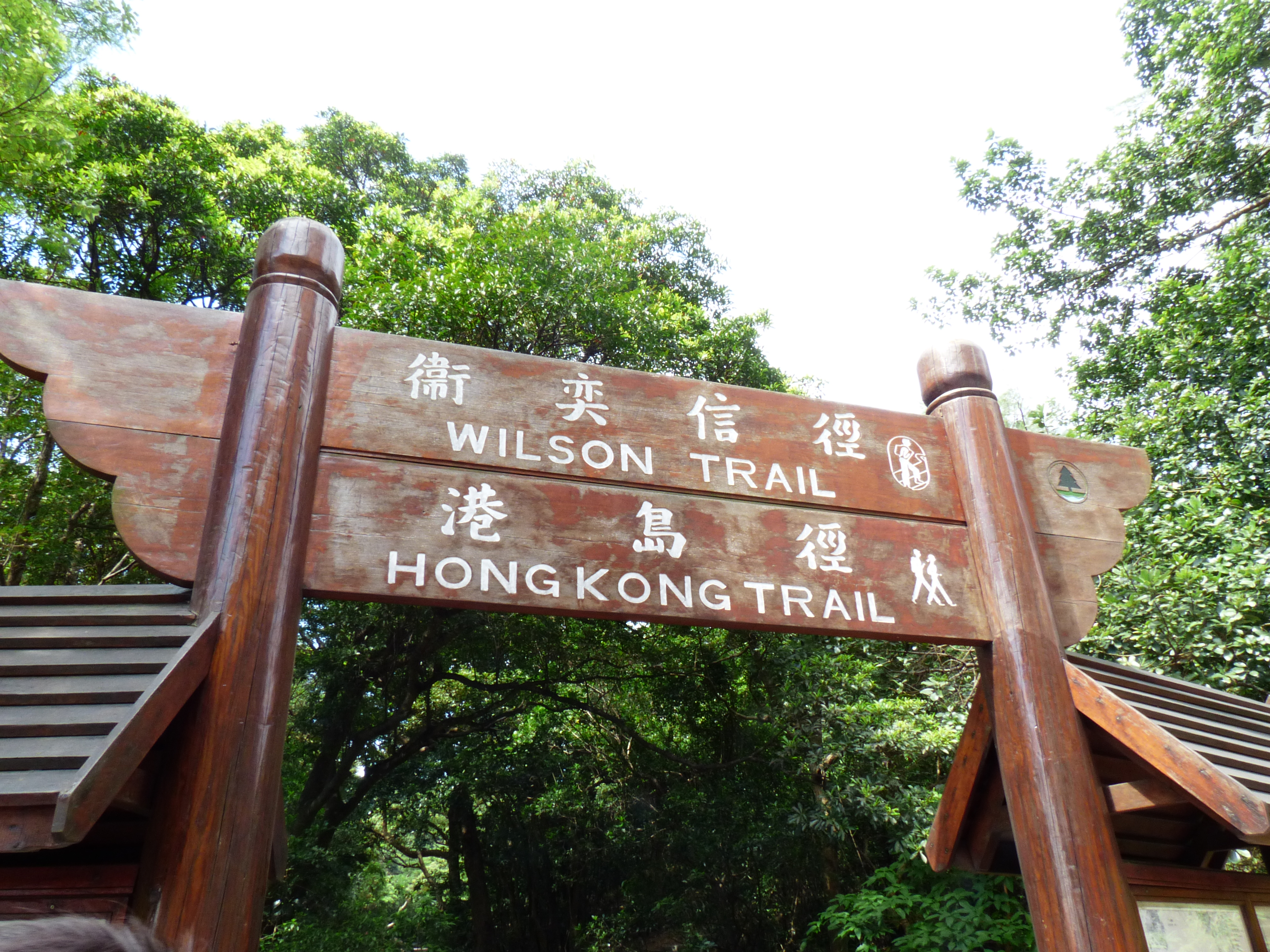 The Decorated archway of Wilson Trail and Island Trail in Hong Kong Parkview